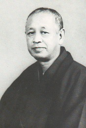 Portrait of Ôhara Magosaburô